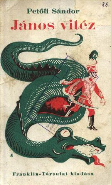 Petőfi János vitéz Franklin Térsulat